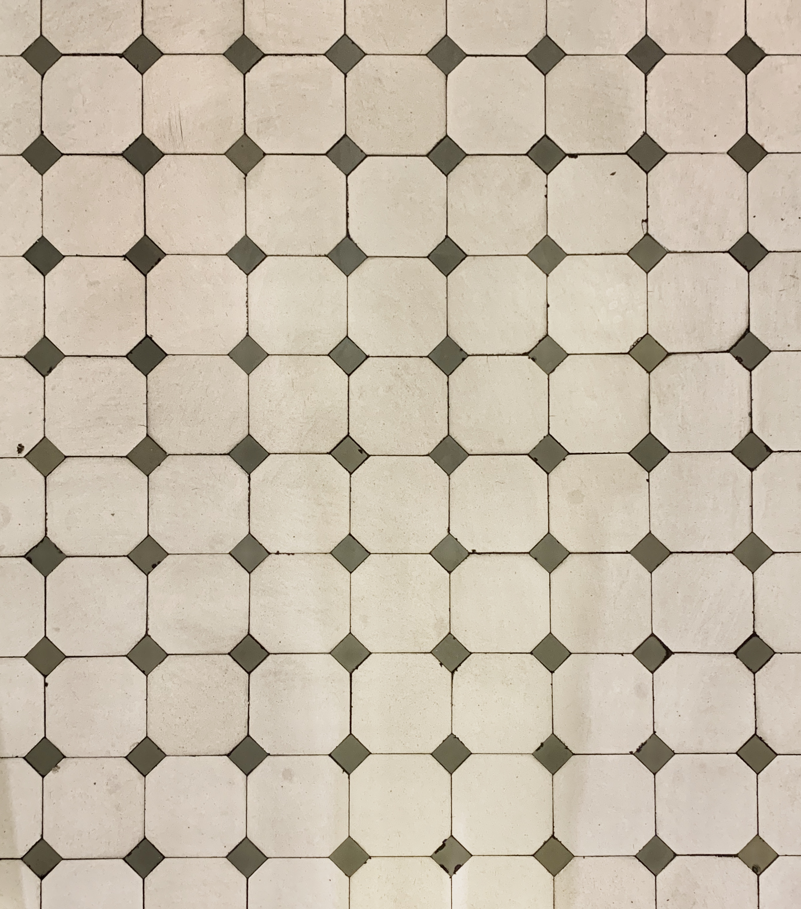 15, Strada Arthur Verona, Bucharest (Romania)